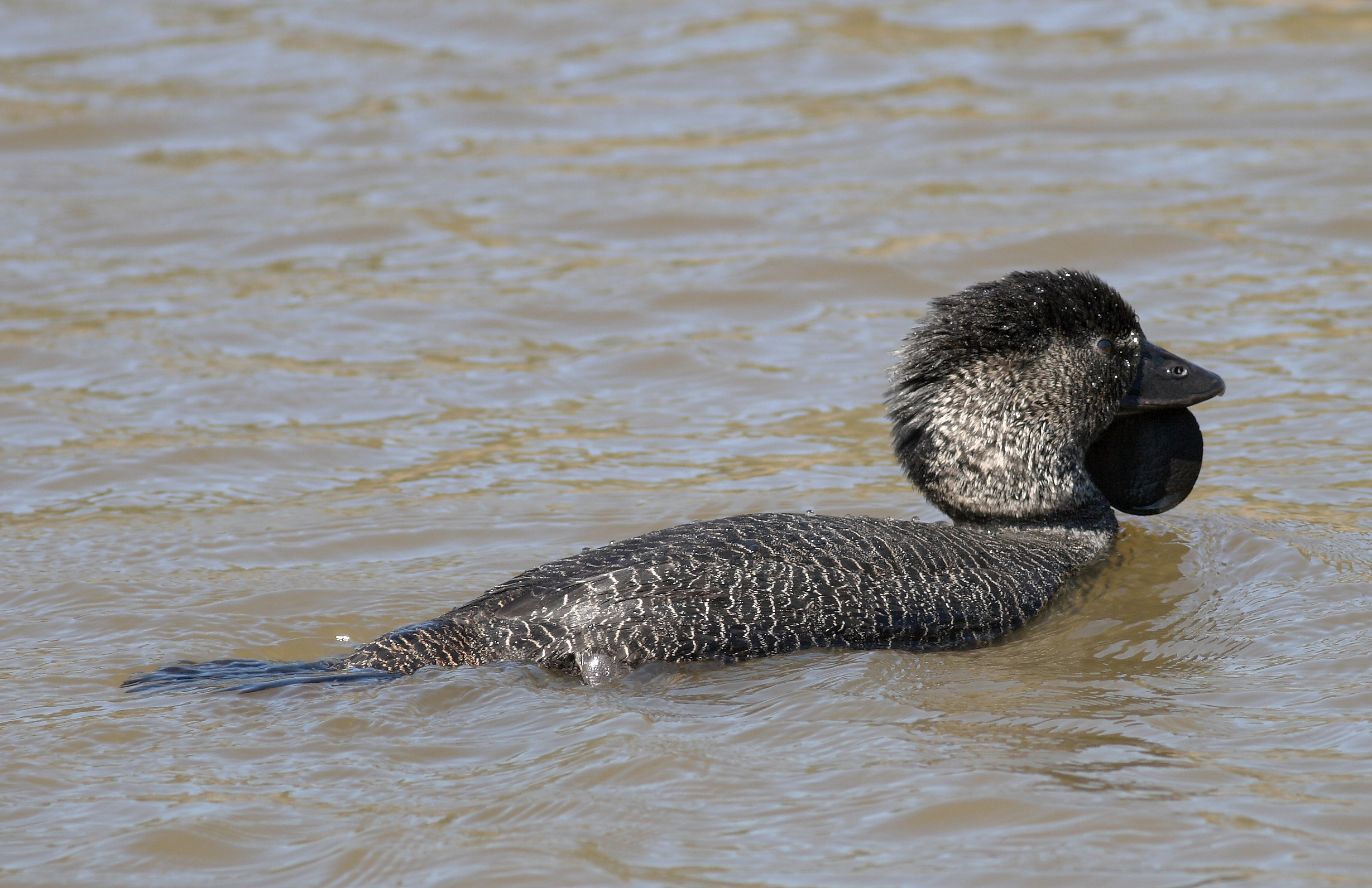 Musk Duck at Tidbinbilla Nature Reserve, Canberra, ACT